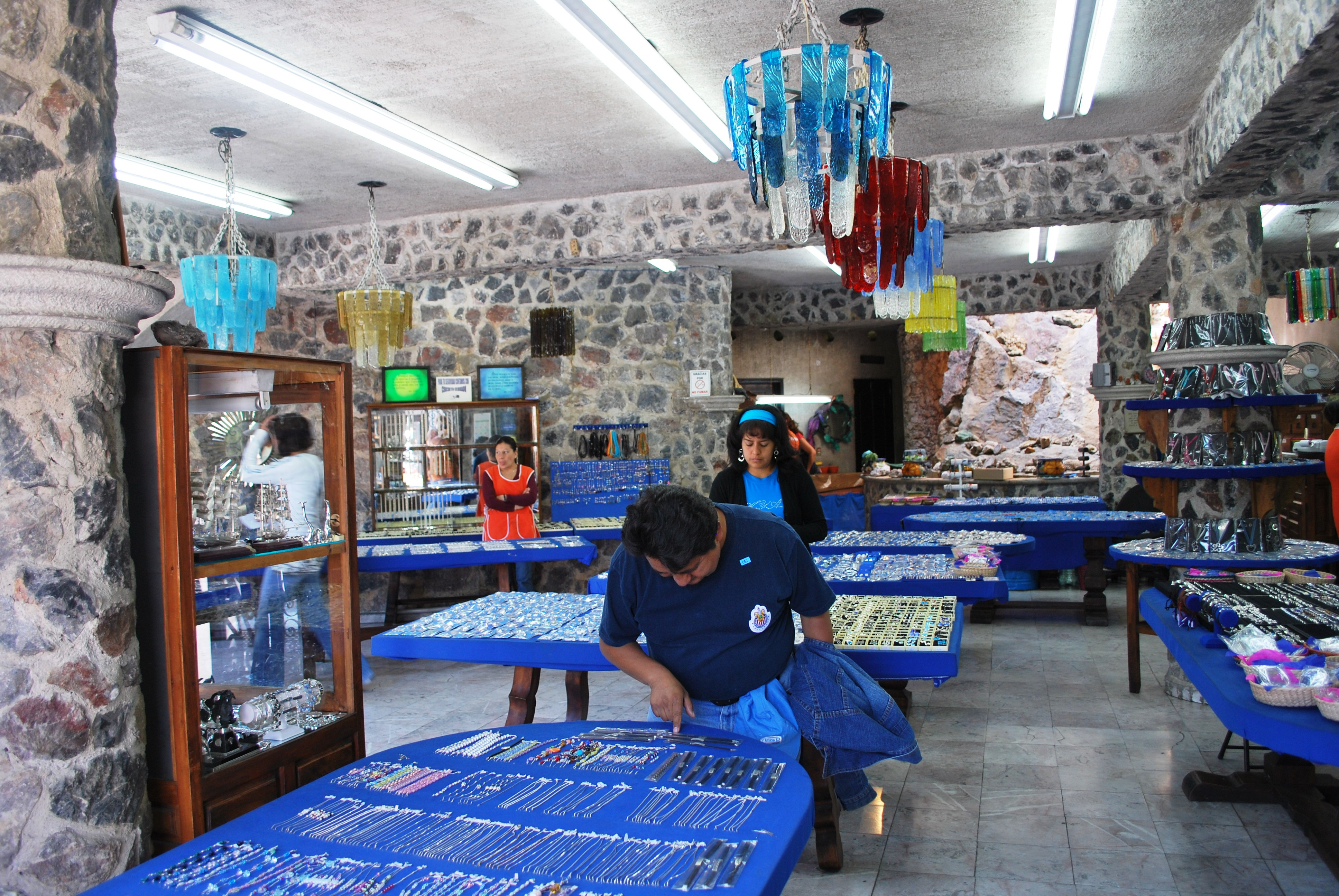 Browsing in the Real de Mina Silver shop in Taxco de Alarcón, Guerrero, Mexico